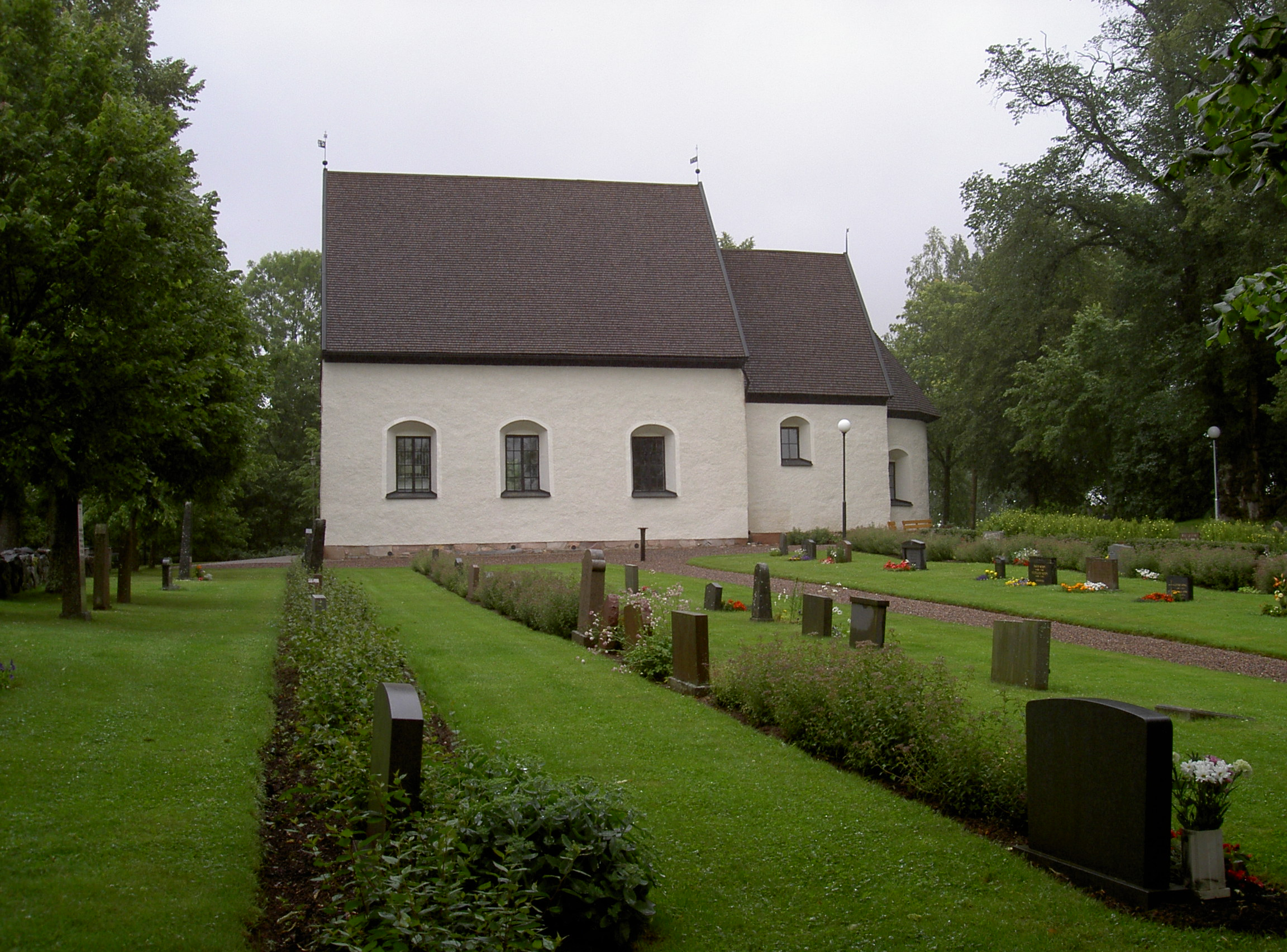 Gårdeby church south side